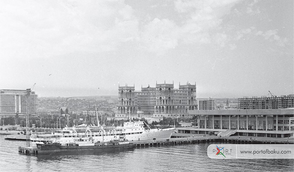 1972-ci ildə Buxtadan Bakı şəhərinin görünüşü